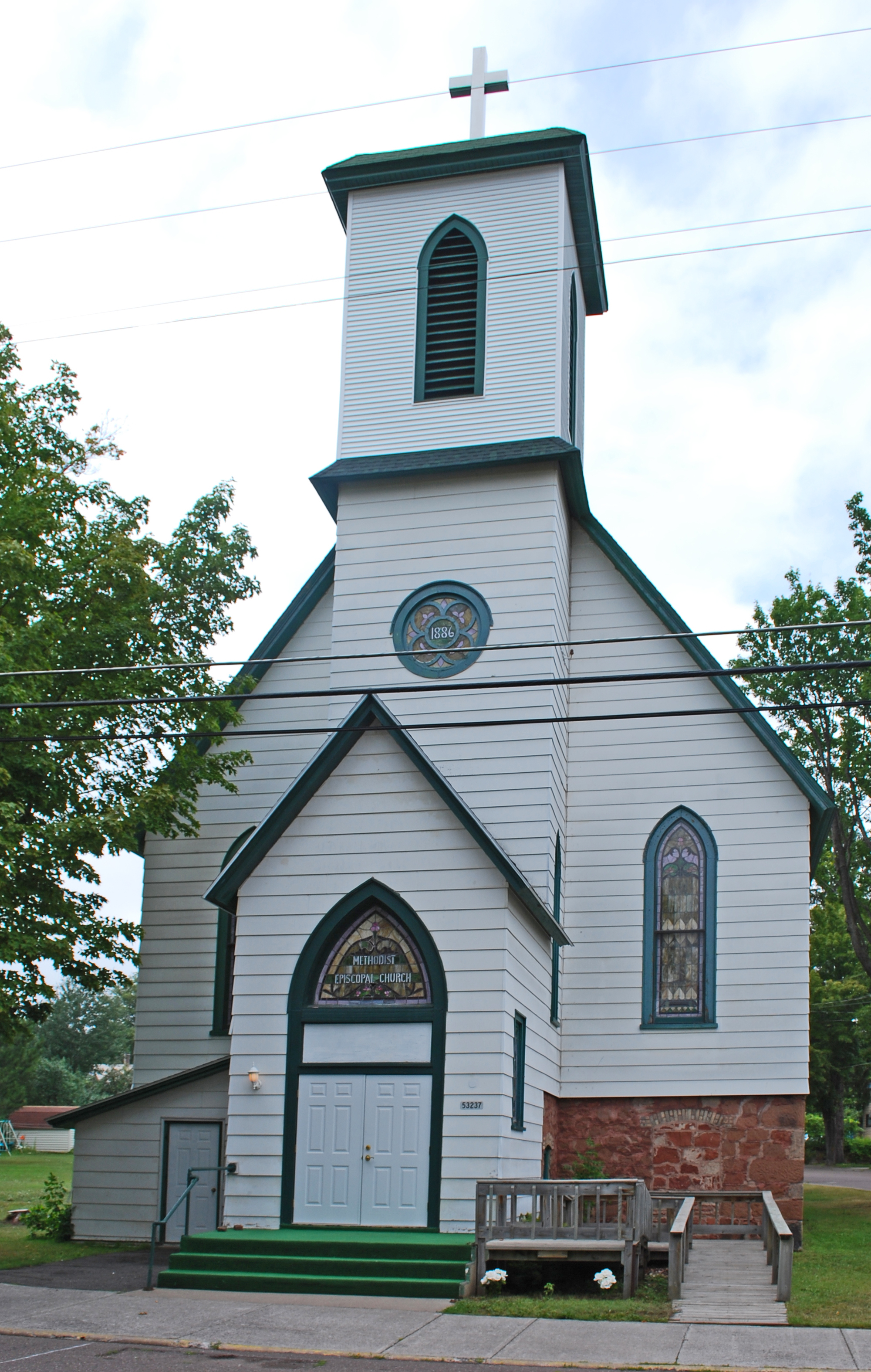 Methodist Episcopal Church Lake Linden MI